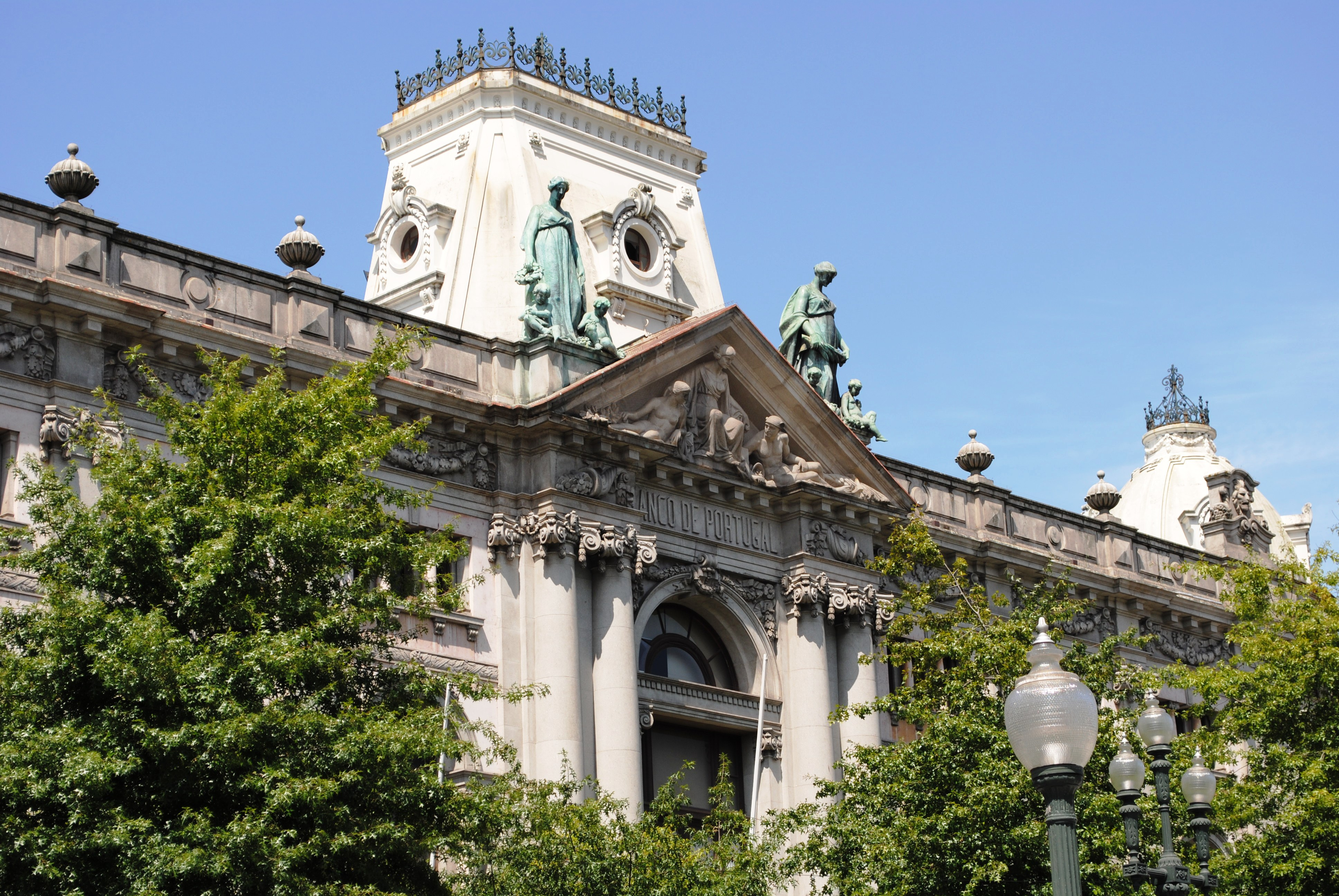 See title and categories.